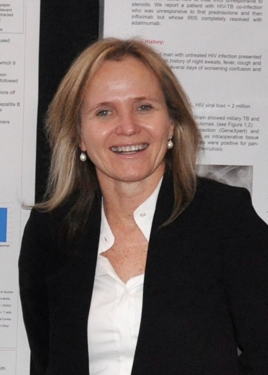 Taken November 2017, ASHM Conference in Canberra, Australia